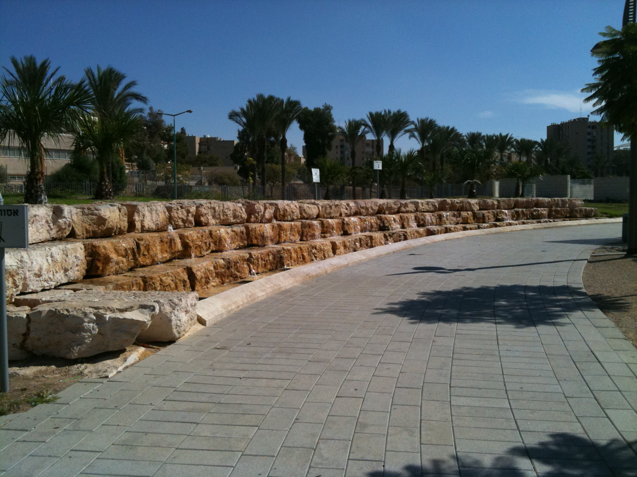 The Australian Solder Park, Beersheba